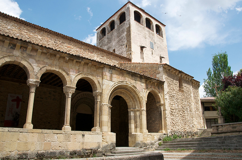 From the entrance of Church of San Clemente, Segovia.